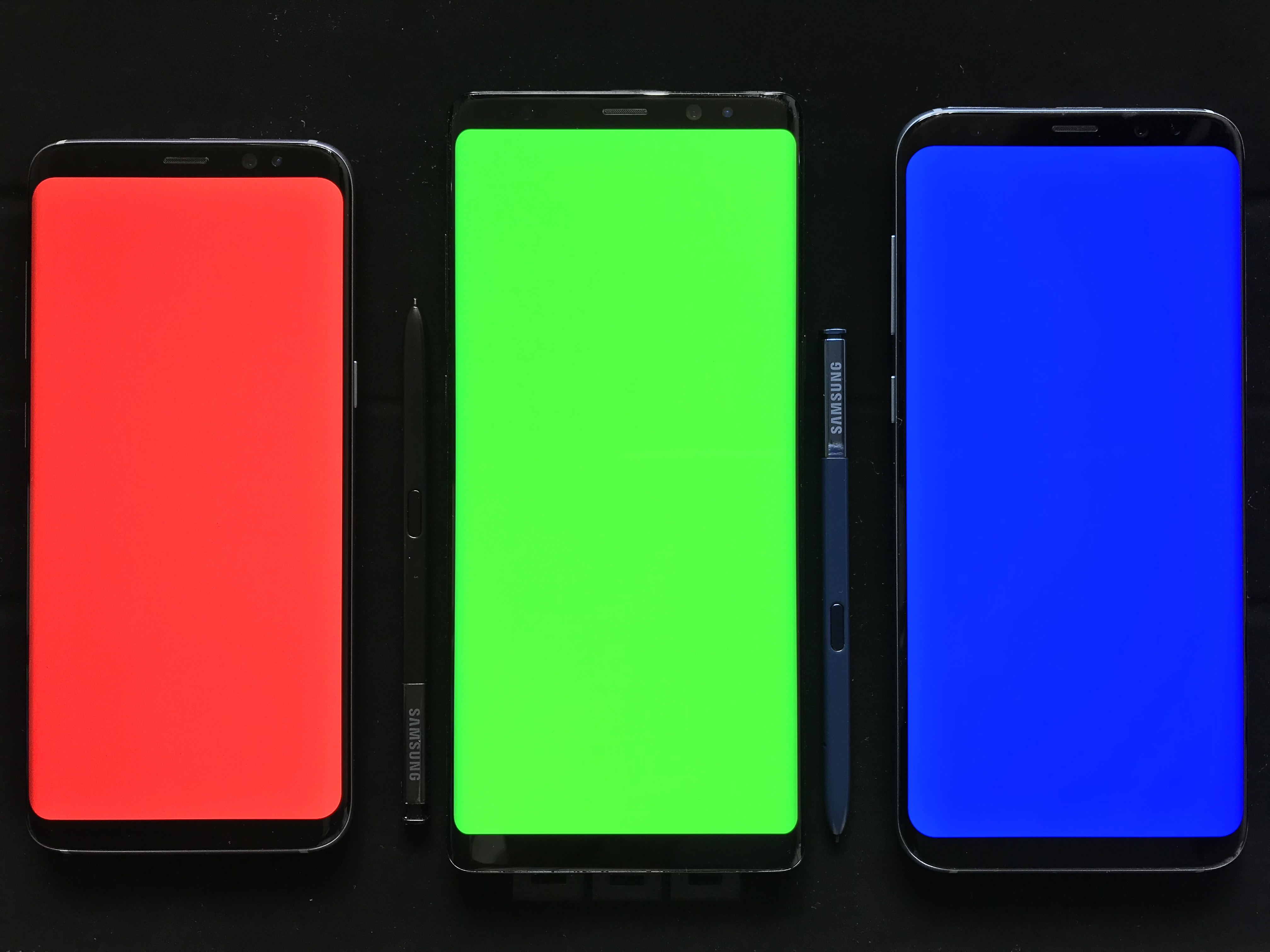 Samsung Galaxy AMOLED (RGB)